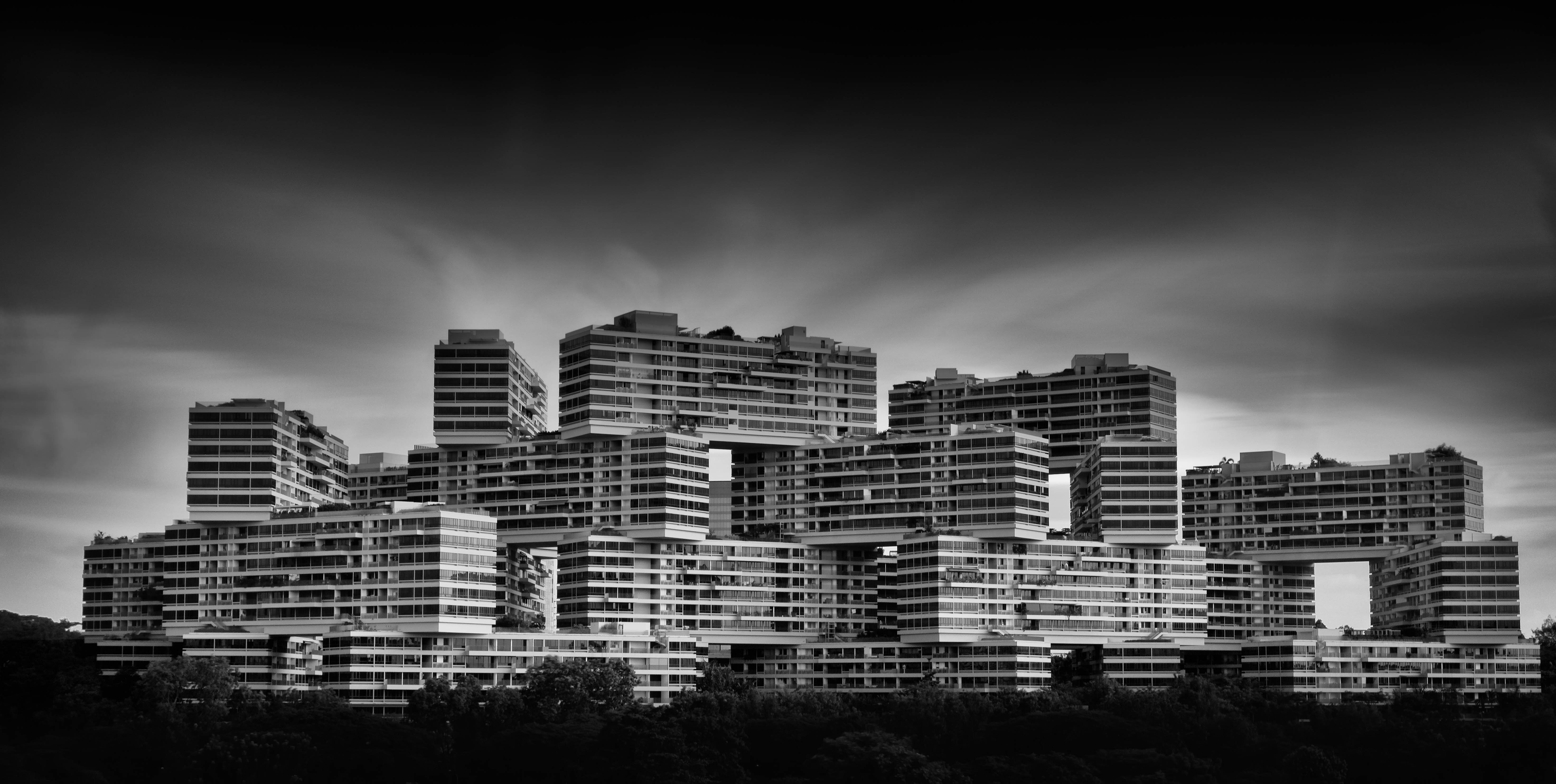 This photo is of The Interlace, a condominium in Singapore with some uniquely interesting architecture. I took this shot from a vantage point at Alexandra Central mall's car park (credit to Darren Soh for the tip). It was the perfect environment to set up the shot: the car park was empty so I wasn't disturbed, there was a ledge where I could rest my tripod and gear, and it was sheltered from the heat. I could literally have stayed there all day if I wanted to. As it happens though, I was happy with the first shot I took so I left again relatively quickly!